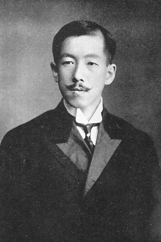 Tadamaro Shimazu